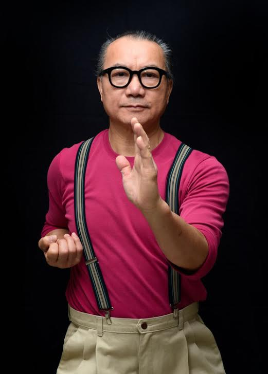 Sifu Wan Kam Leung performing Wu Sau